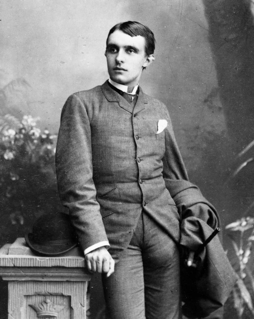 Portrait of a young Herman Bang